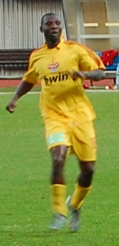 Dani Chigou of FK Dukla Praha (Dukla Prague) during the match against FK Viktoria Žižkov